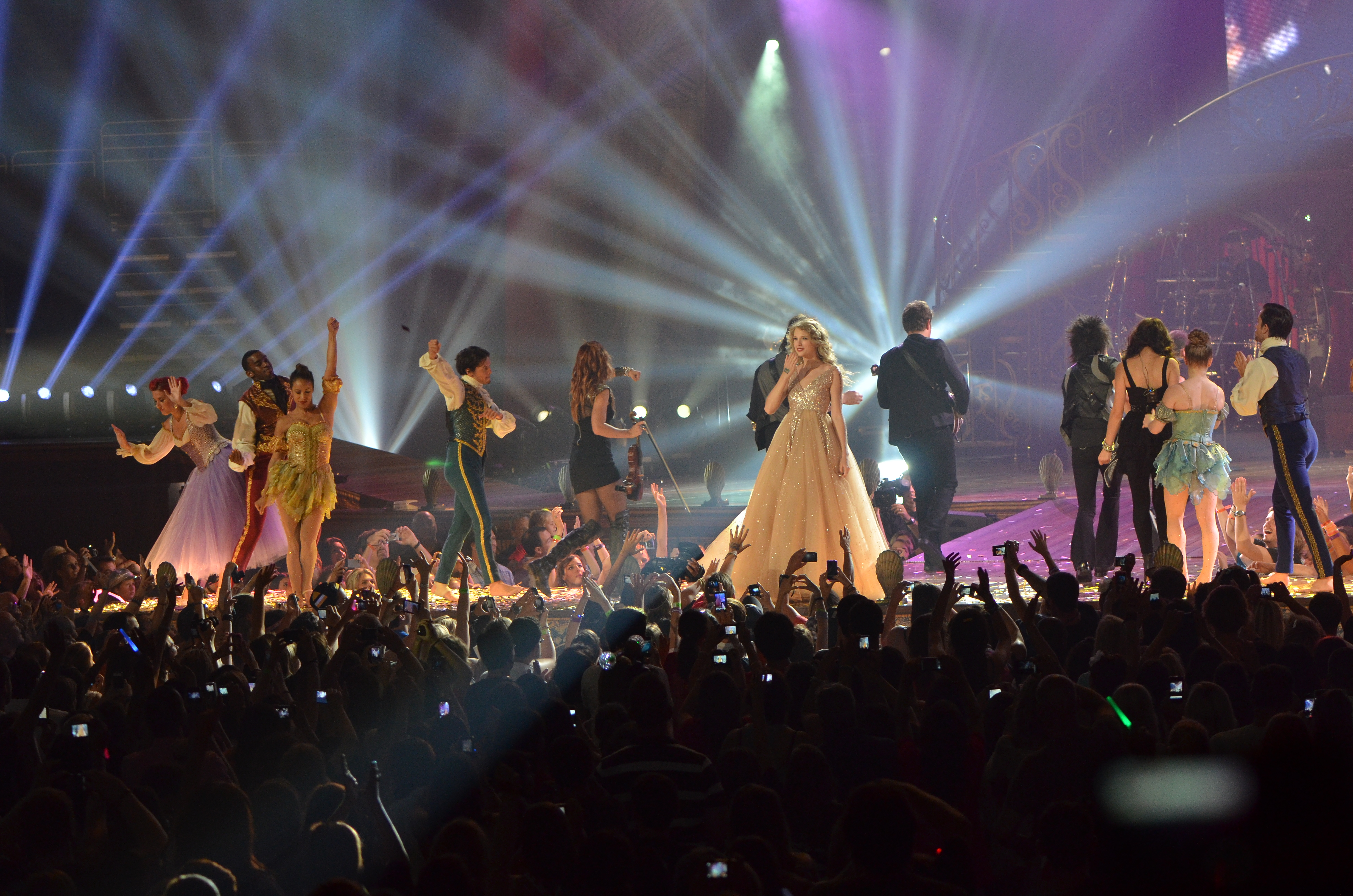 Taylor Swift performing live on Speak Now tour in July 2011